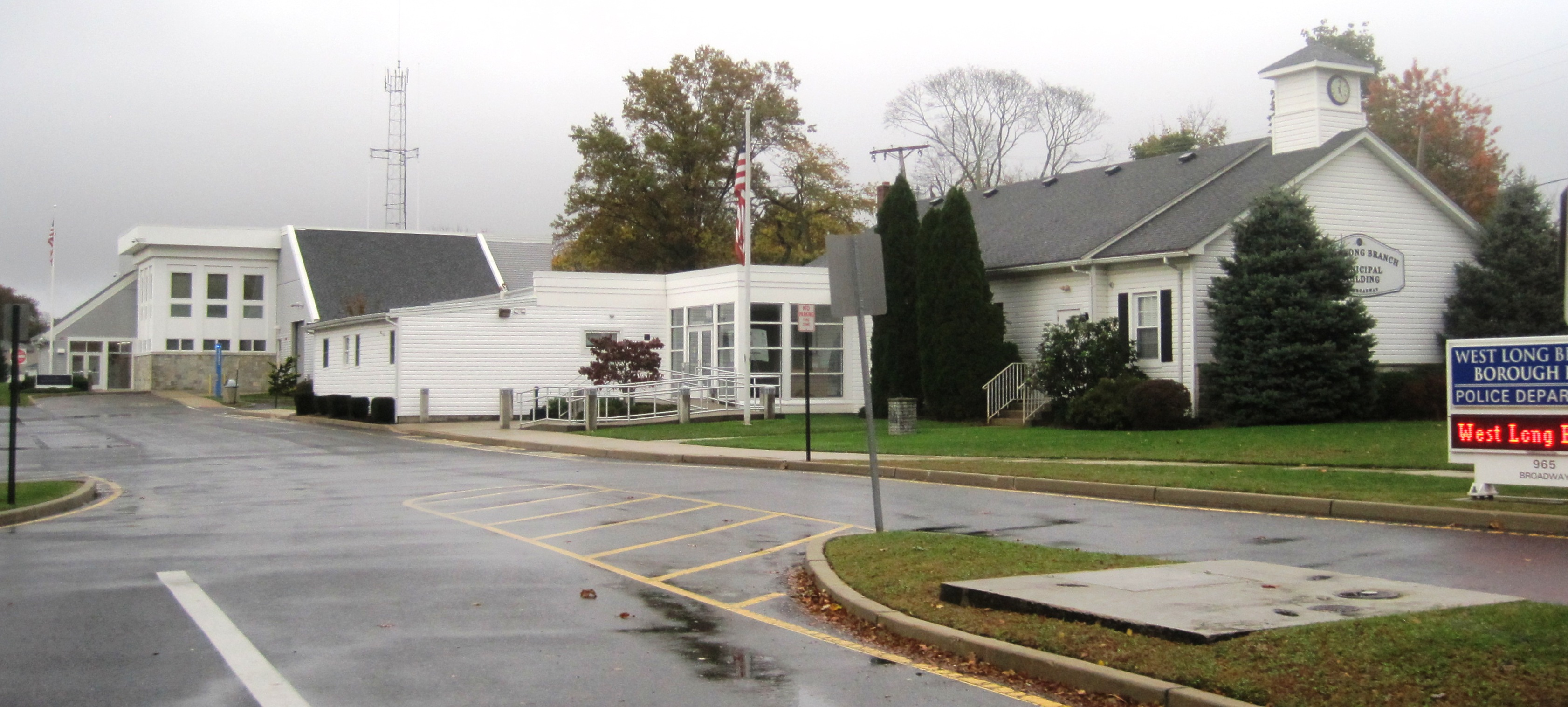 Photo showing the front of the West Long Branch, New Jersey borough hall. Photo taken from Broadway (County Route 537).